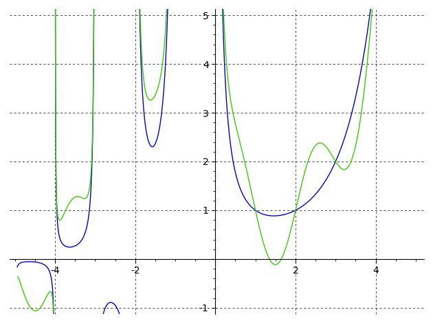 The Gamma function analytically continues the factorial function to non-integers. However it is not unique in this. Here a periodic function which is 0 at the integer values shows how it may be added to the gamma function resulting in another analytic continuation of the factorials. Generated with sympy with jupyter. g = \int_{0}^{\infty} x^{z - 1} e^{- x}\, dx h = \sin{\left (\pi z \right )} + \int_{0}^{\infty} x^{z - 1} e^{- x}\, dx plot(h, g, (z, 1, 4), axis_center=(1,1), ylabel="", xlabel="") Sage version plotted with plot([gamma(x), gamma(x)+sin(pi*x)], x,-5, 5, ymax=5, ymin = -1, detect_poles=True, gridlines=True, ticks_integer=True)